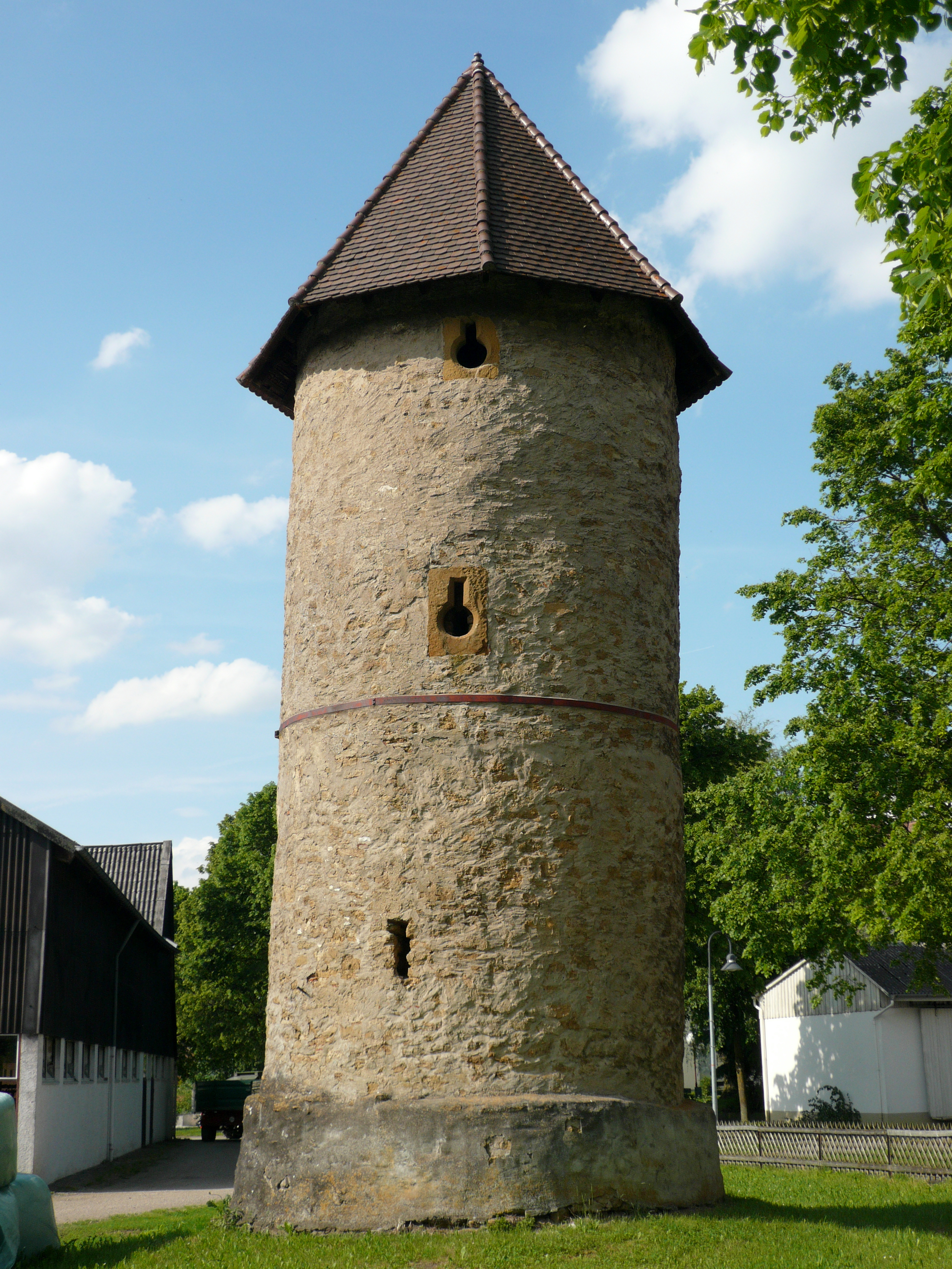 Lauchheim, tower (remains of ancient town fortification)